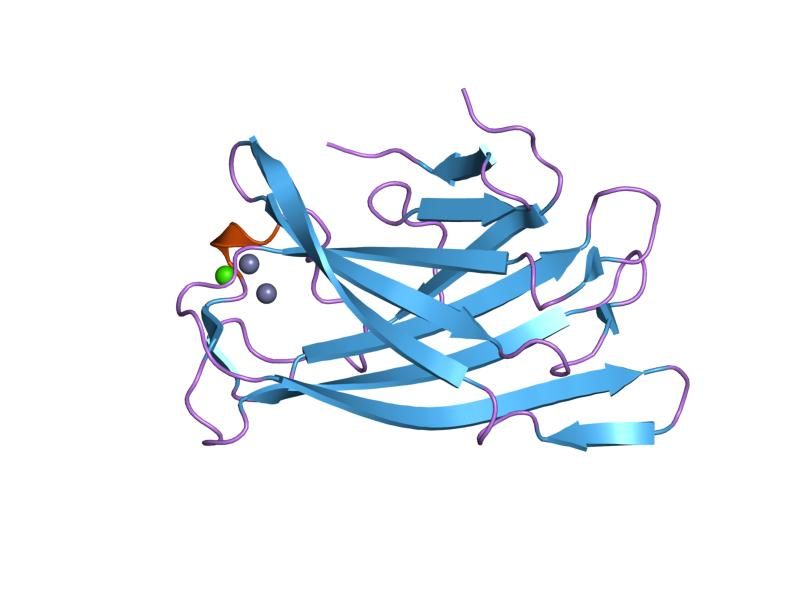 Cartoon representation of the molecular structure of protein registered with 1g43 code.